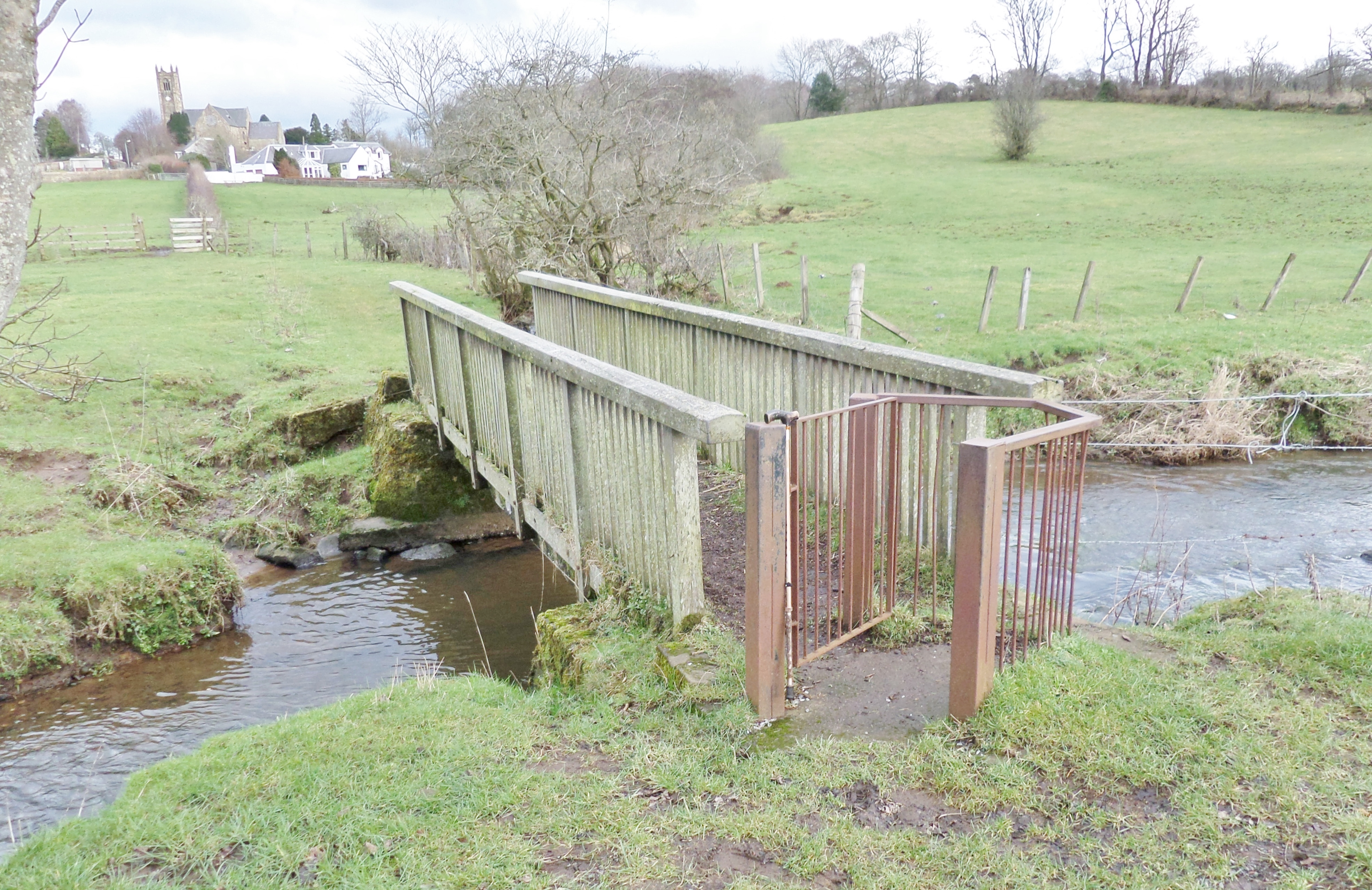 Murdock's Bridge replacement, Kirkton, Carmel Water, Kilmaurs, East Ayrshire, Scotland